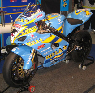 Taken by myself (Andy Cross) at Snetterton 09-Jul-05